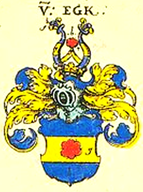 Coats of arms of Eck von Kelheim